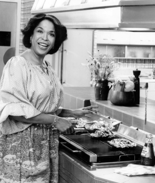 Publicity photo of Della Reese.